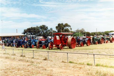 A general view of large collection restored tractors on display at the rally